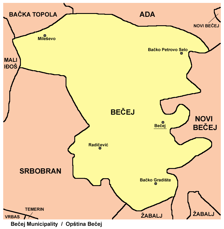 map of Bečej municipality, Vojvodina, Serbia